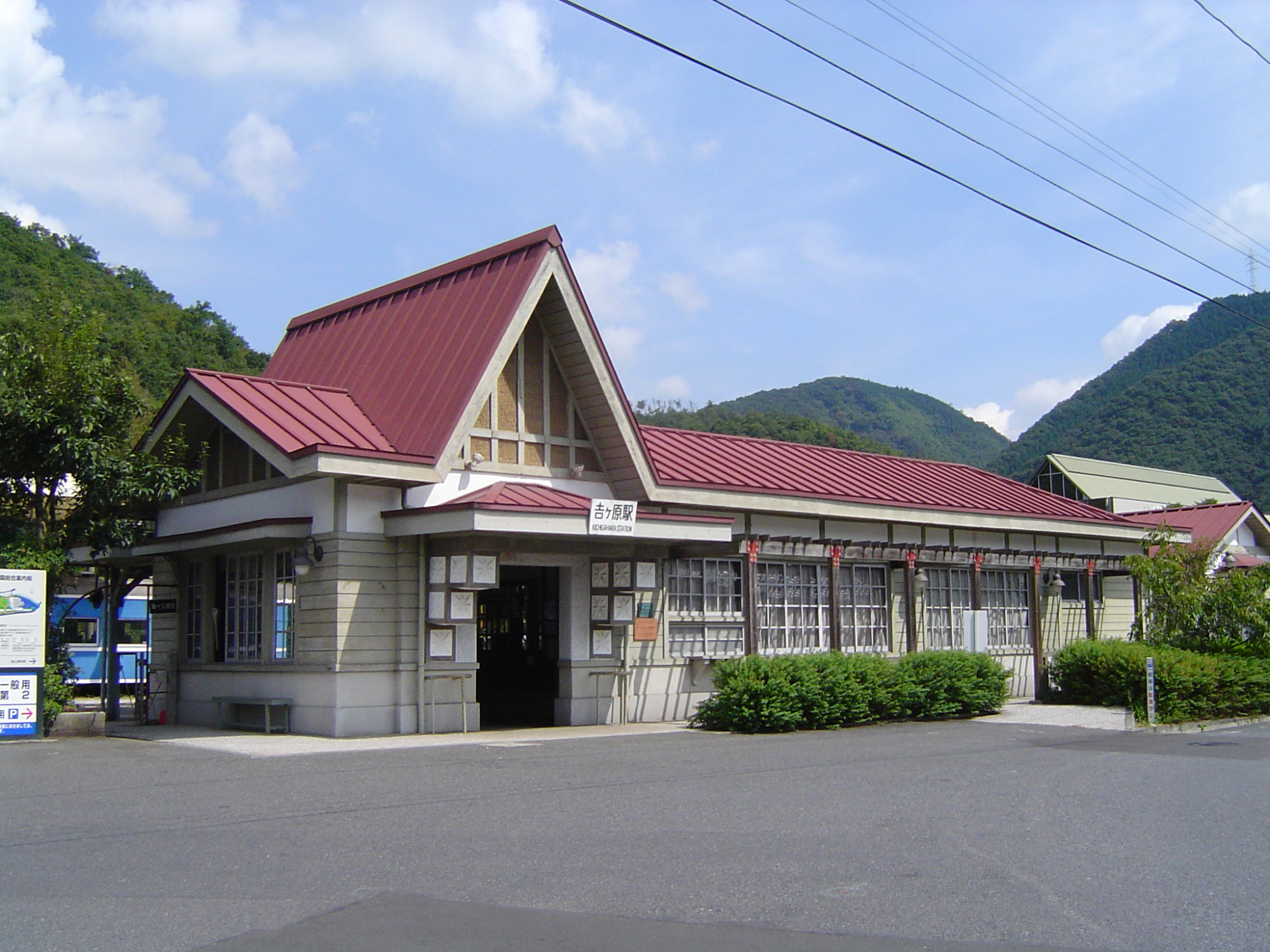 KICHIGAHARA Station in Yanahara mine park.